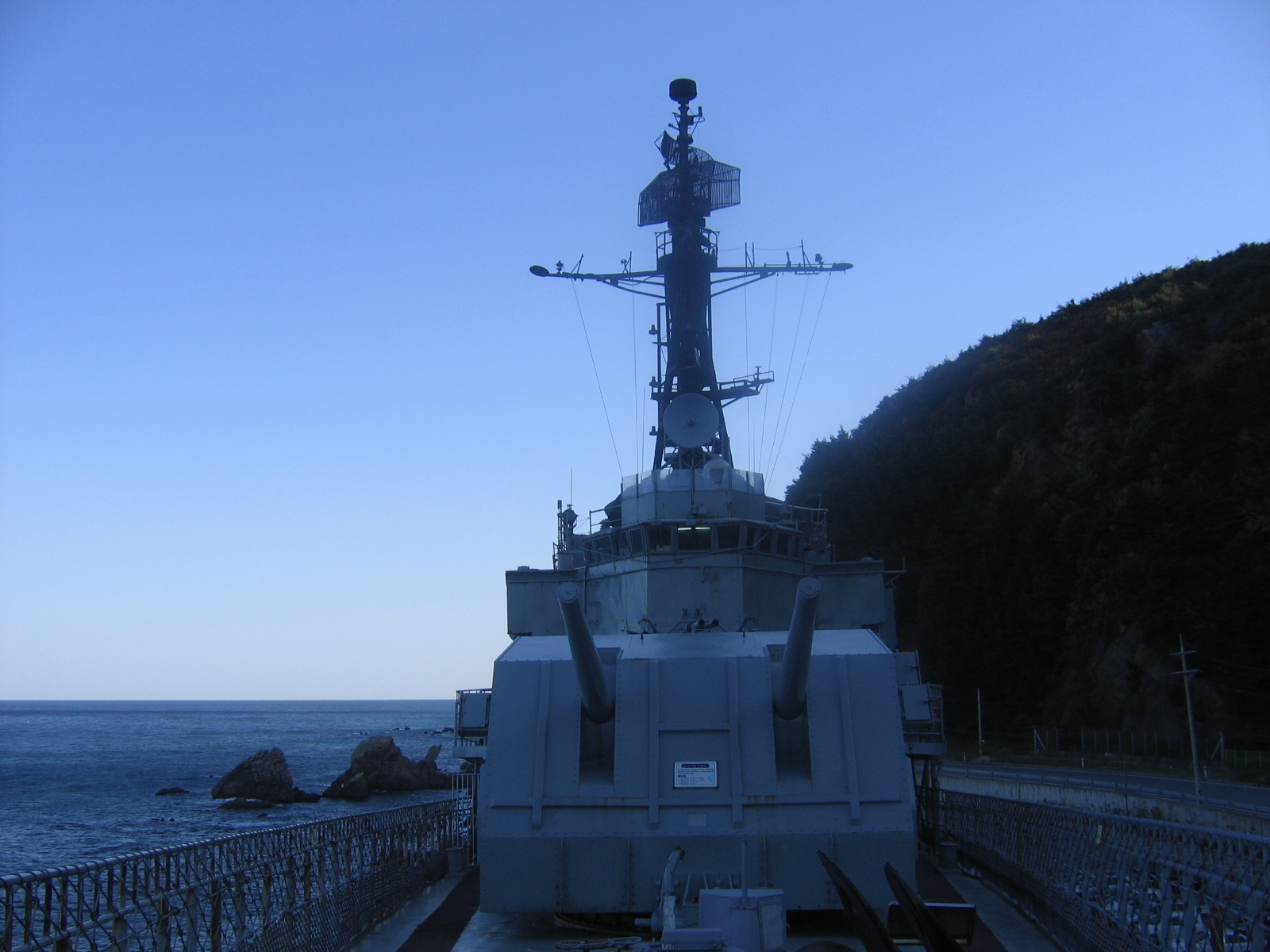 DD-916 JeonBuk of Korean Navy which was transferred from US Navy in 1972. DD-916 was originally USS Everett F. Larson (DD-830)